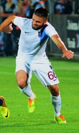 Fatih Atık